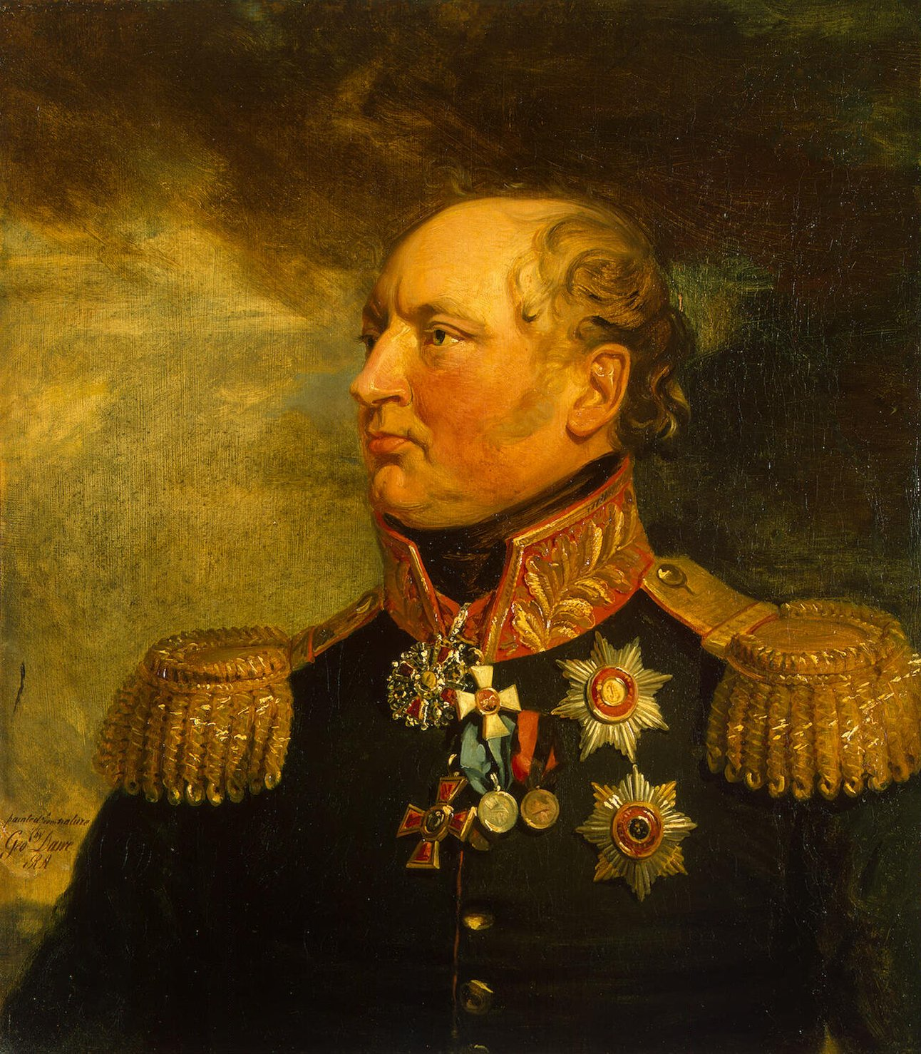 Friedrich von Löwis of Menar (1767–1824) Oil on Canvas, 70x62.5 cm)